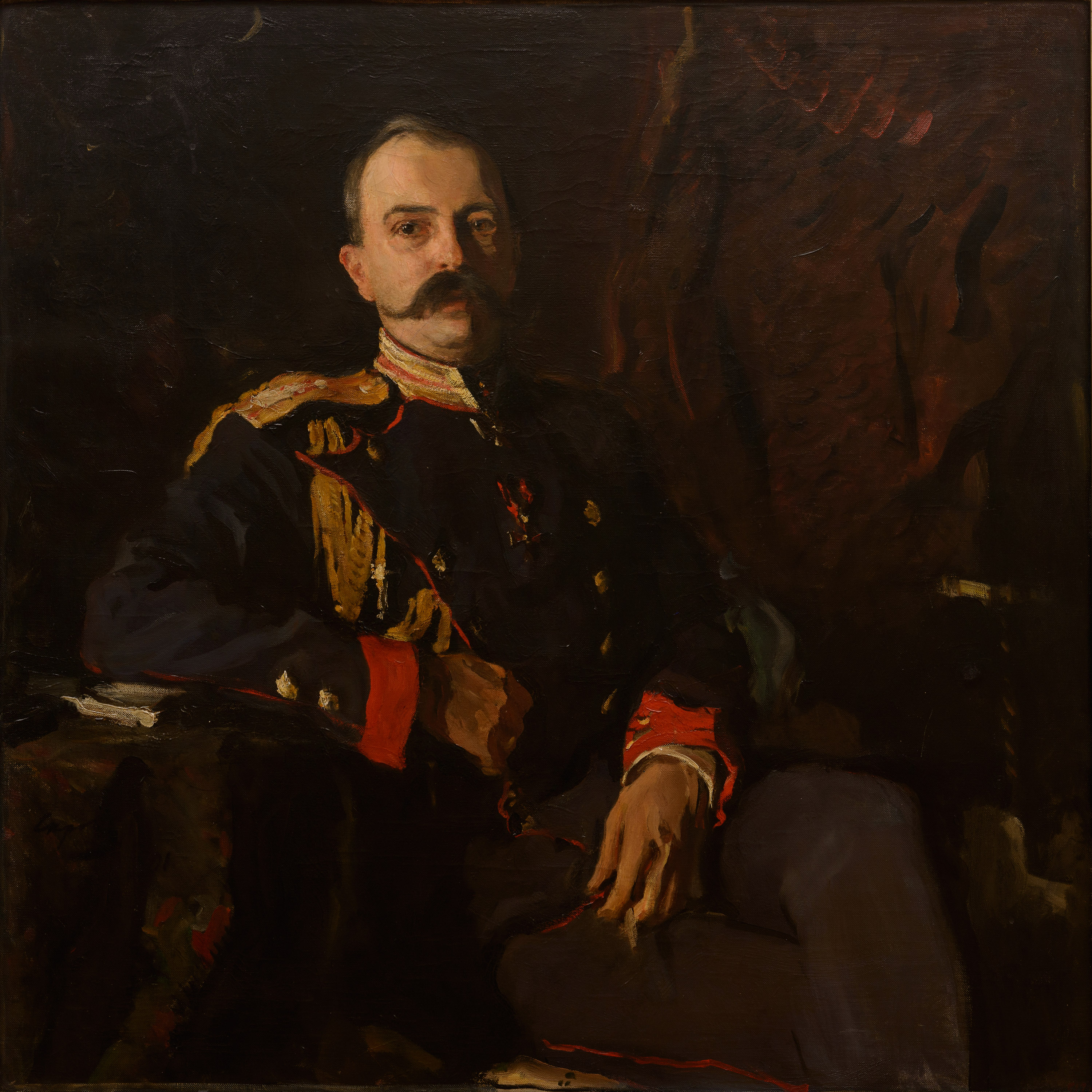 Portrait of Grand Duke Georgy Mikhailovic